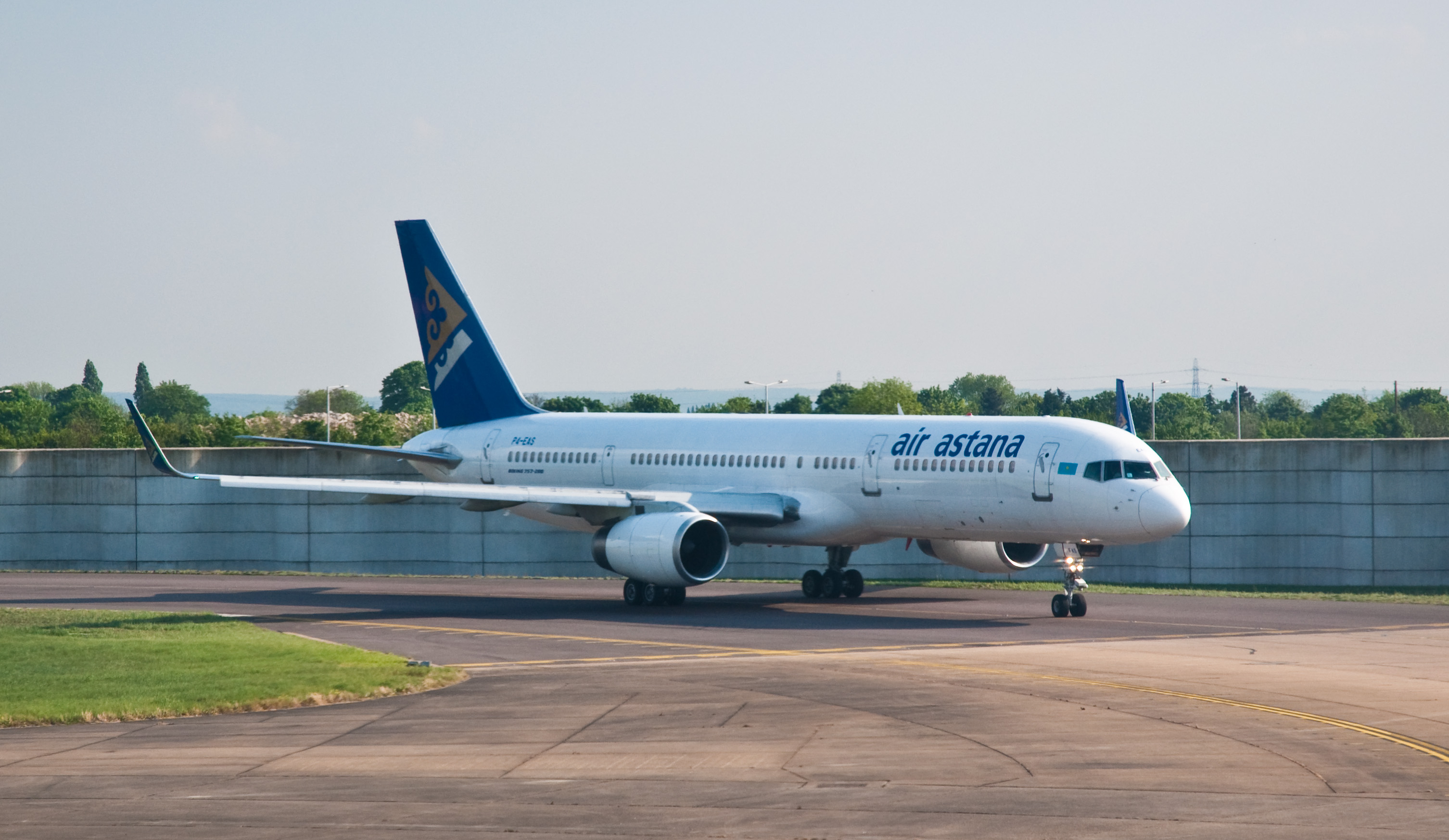 Boeing 757-200 P4-EAS of Air Astana in London Heathrow Airport, England (April 2011).